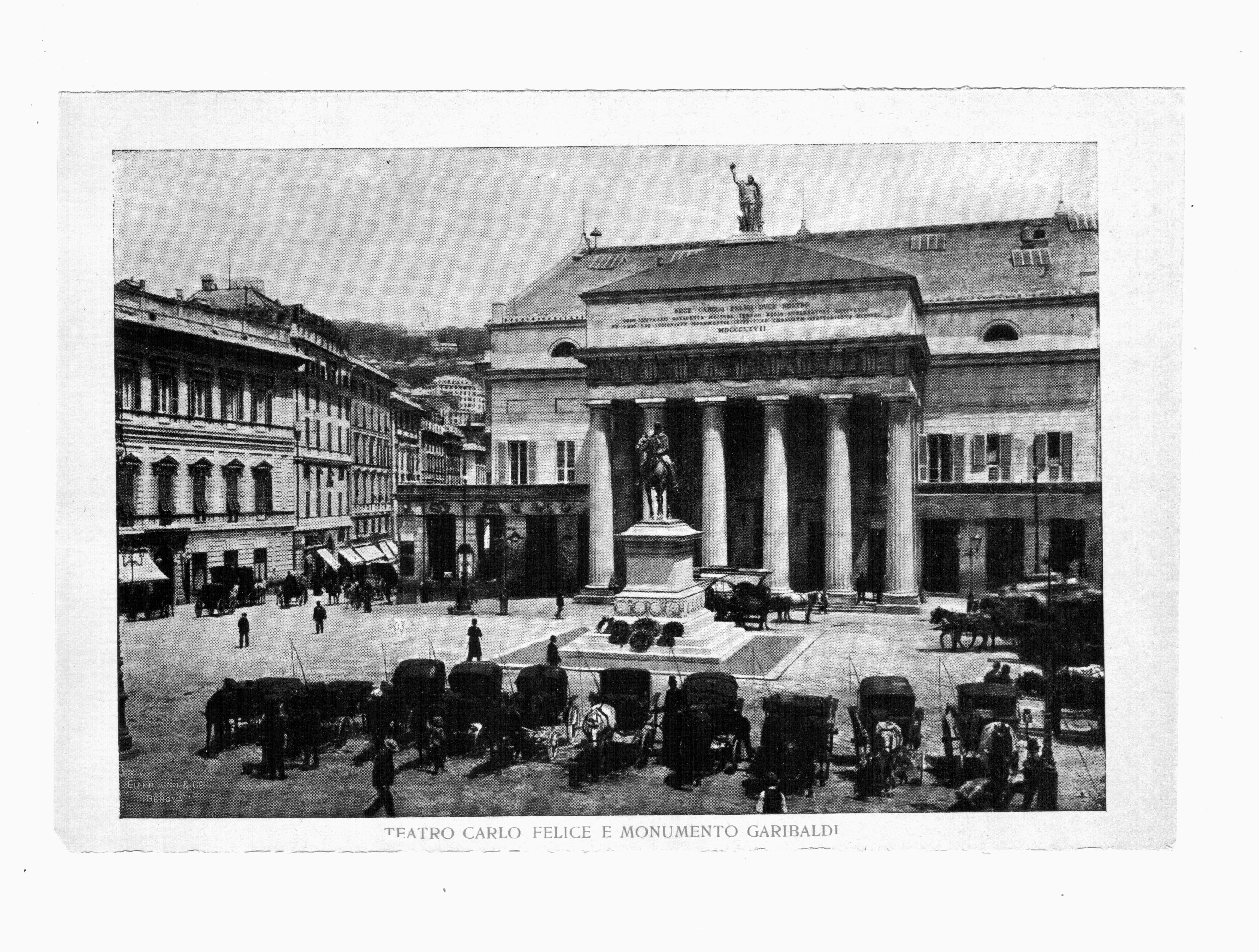 27 photos in an album called "Ricordo di Genova".